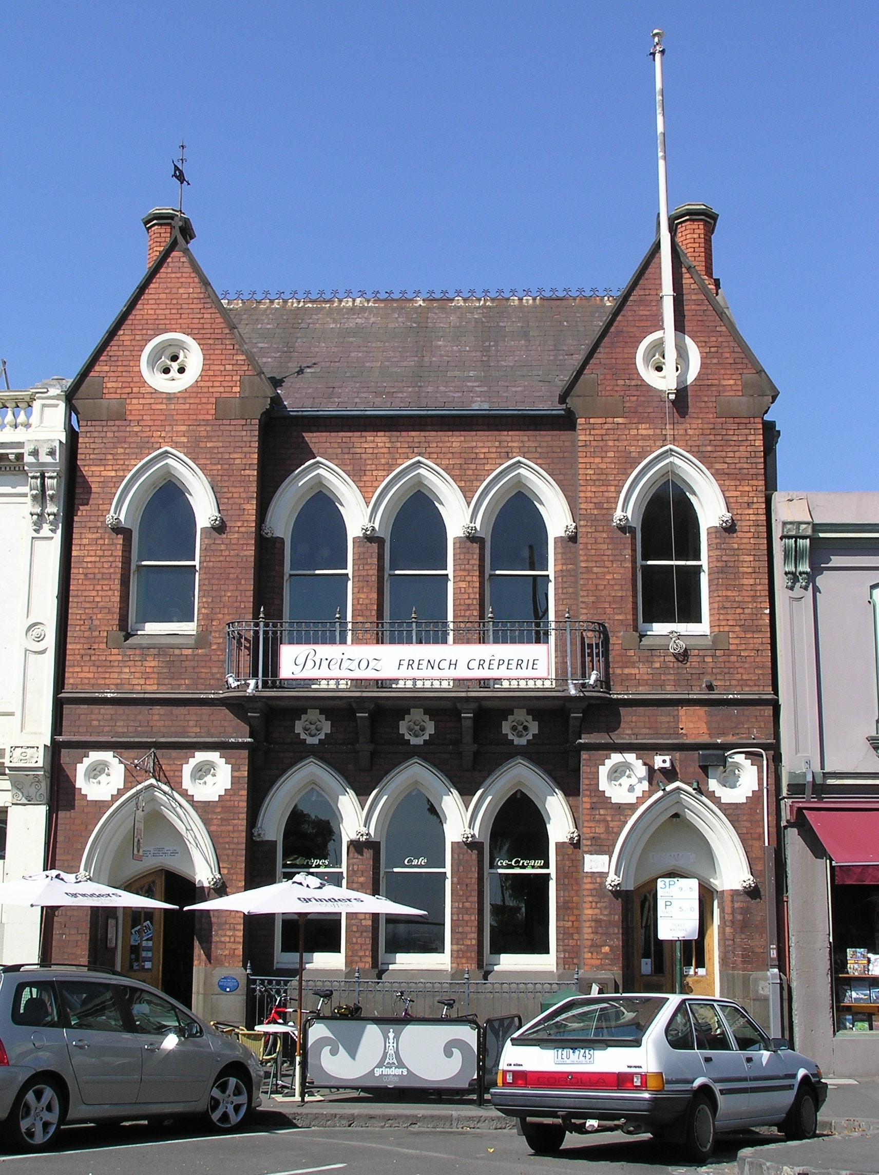 Breizoz - A French Style Creperie Resturant in Nelson Place, Williamstown